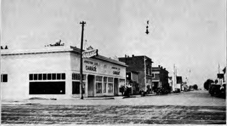 Junction City, Oregon circa 1920